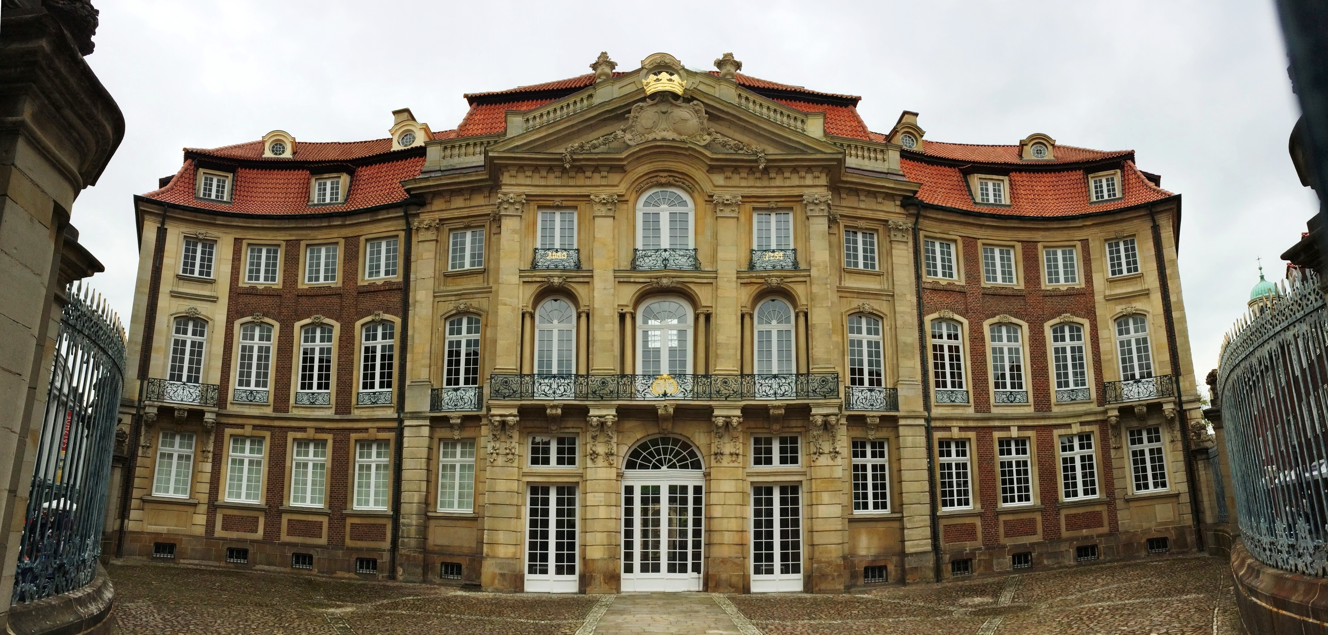 The Erbdrostenhof at the Salzstraße (Salt Street) in Münster (North Rhine-Westphalia, Germany). Built from 1753 - 1757; designed by baroque architect Johann Conrad Schlaun.